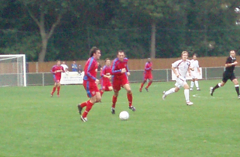 This image is a photograph of an English non-league football match between Hampton & Richmond Borough FC and Billericay Town FC in September 2006. This photograph was taken by me on my camera, and at the time of uploading isn't available anywhere else in the public domain. This photograph should be on this page to illustrate a match of the football club.